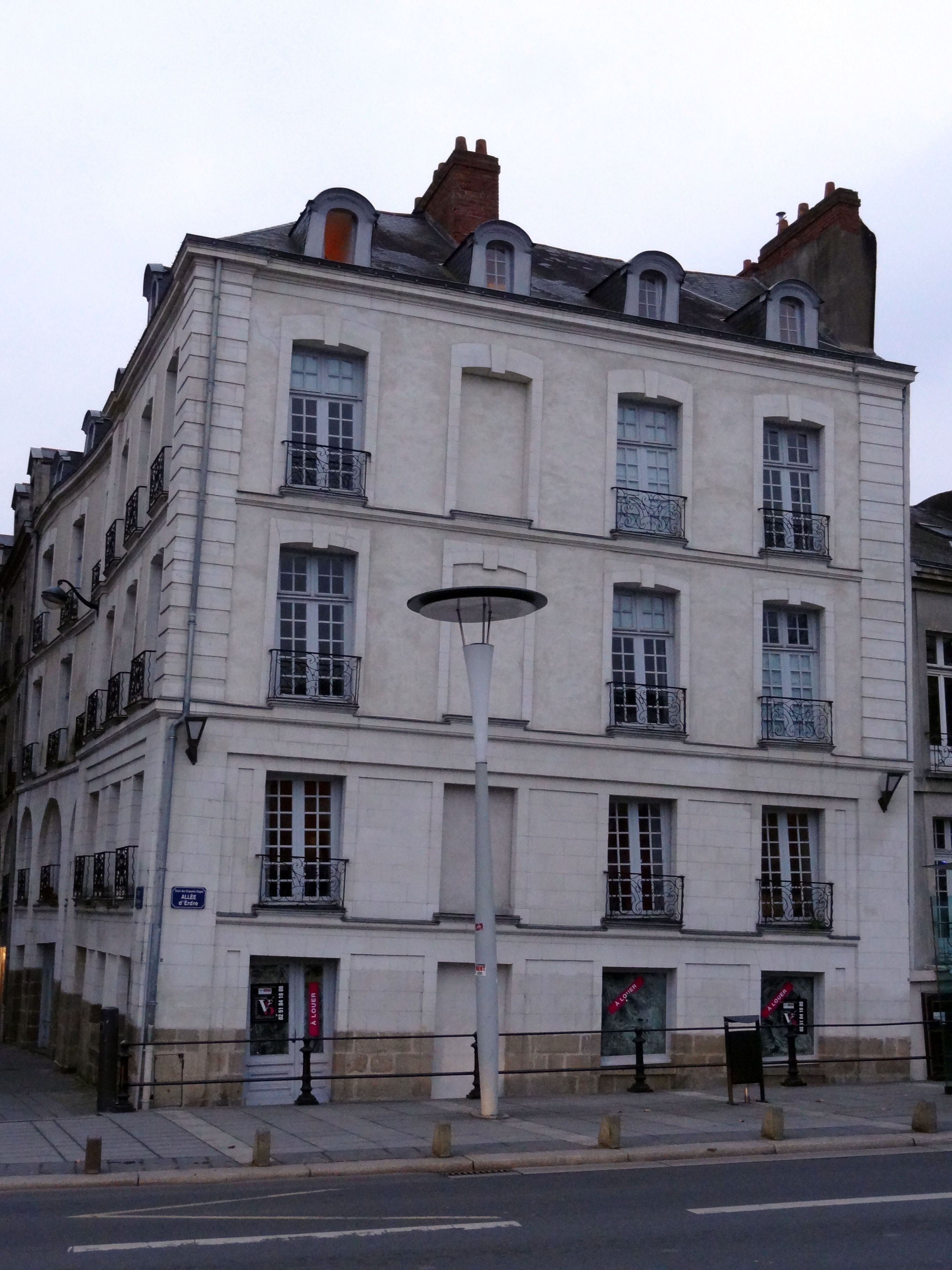 Built on an filled river bed, a subsides building in Nantes.